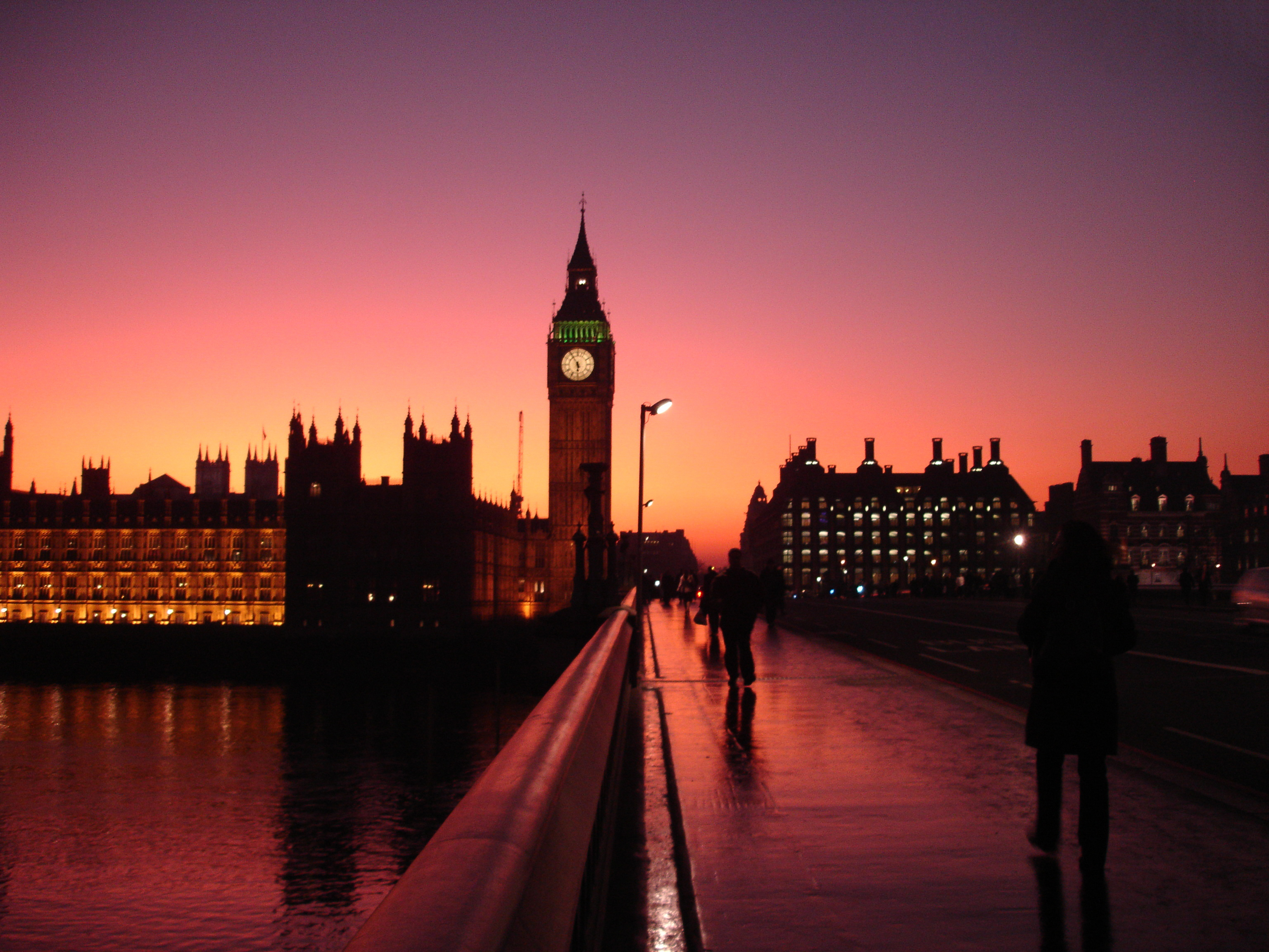 Commuters walking home on Westminster Bridge covered in a purple sunset